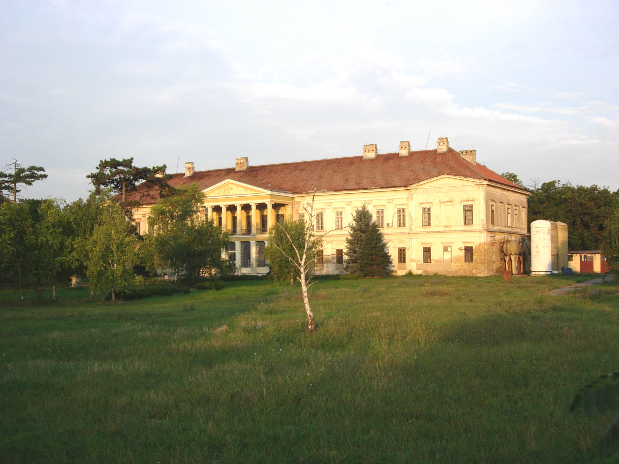 The Karačonji (Karácsonyi) Mansion in Novo Miloševo.